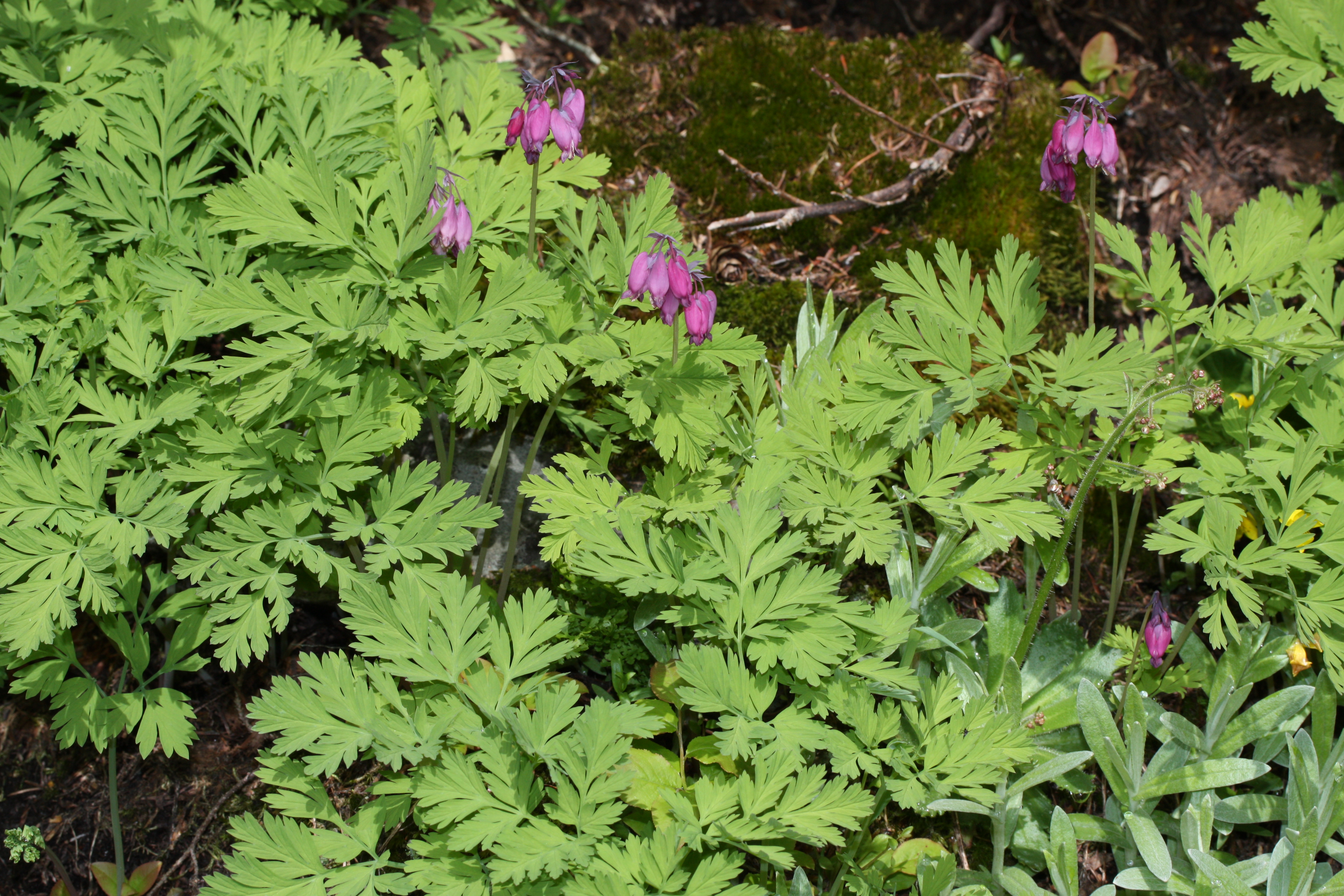 Pacific Bleeding Heart